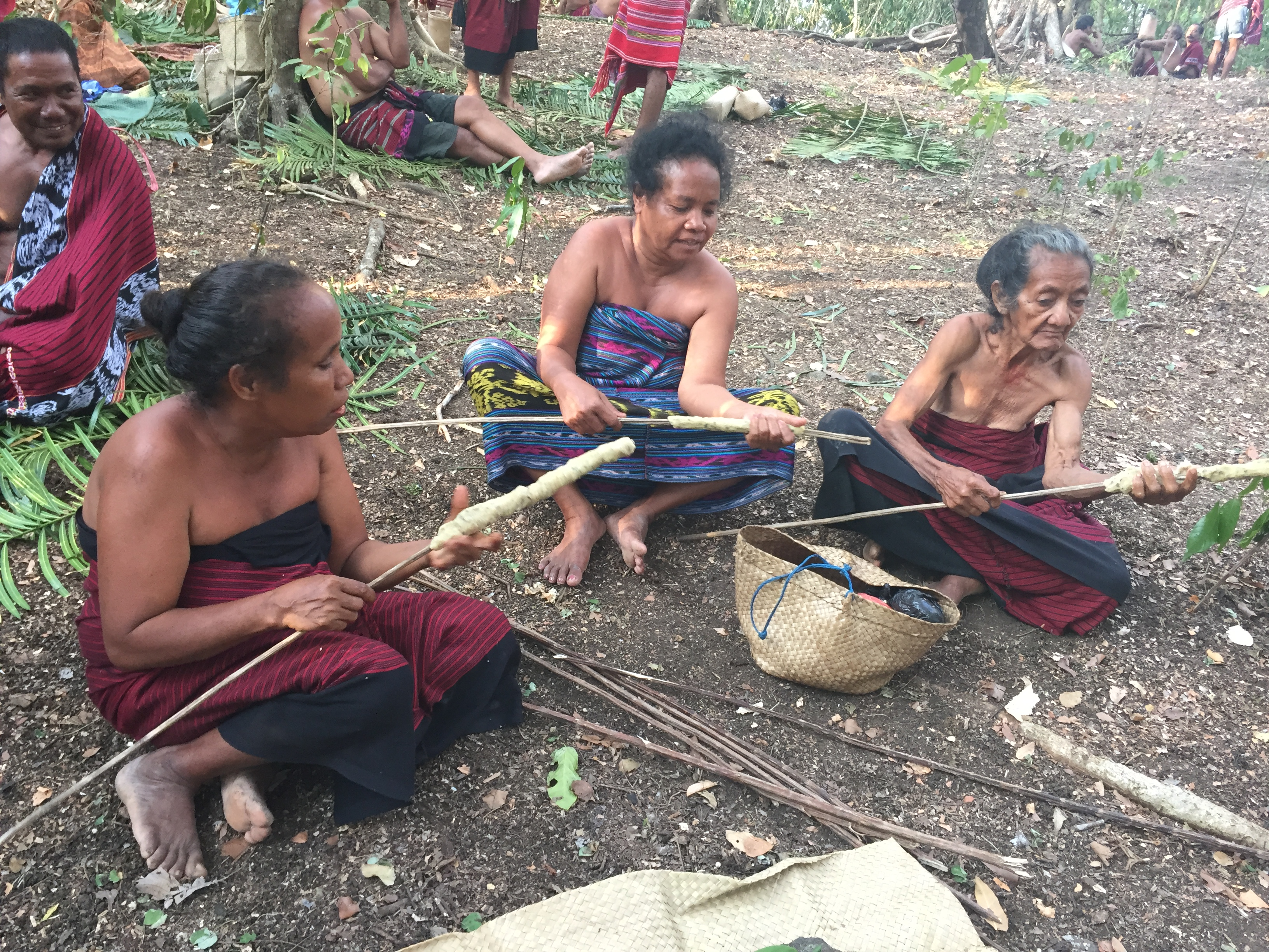 Baha Liurai. Making candlenut sticks to light the night.